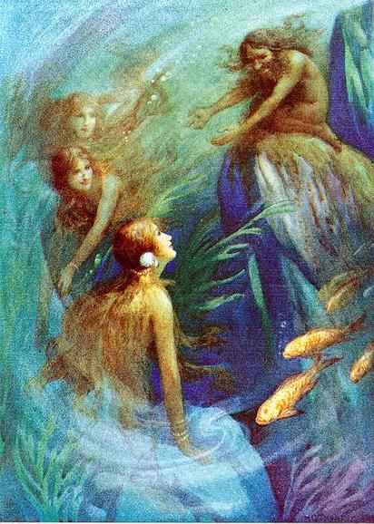 Andvari and the Rhinemaidens - Illustration by Harry George Theaker for Children's Stories from the Northern Legends by M. Dorothy Belgrave and Hilda Hart, 1920